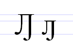 Cyrillic letter el with hook.